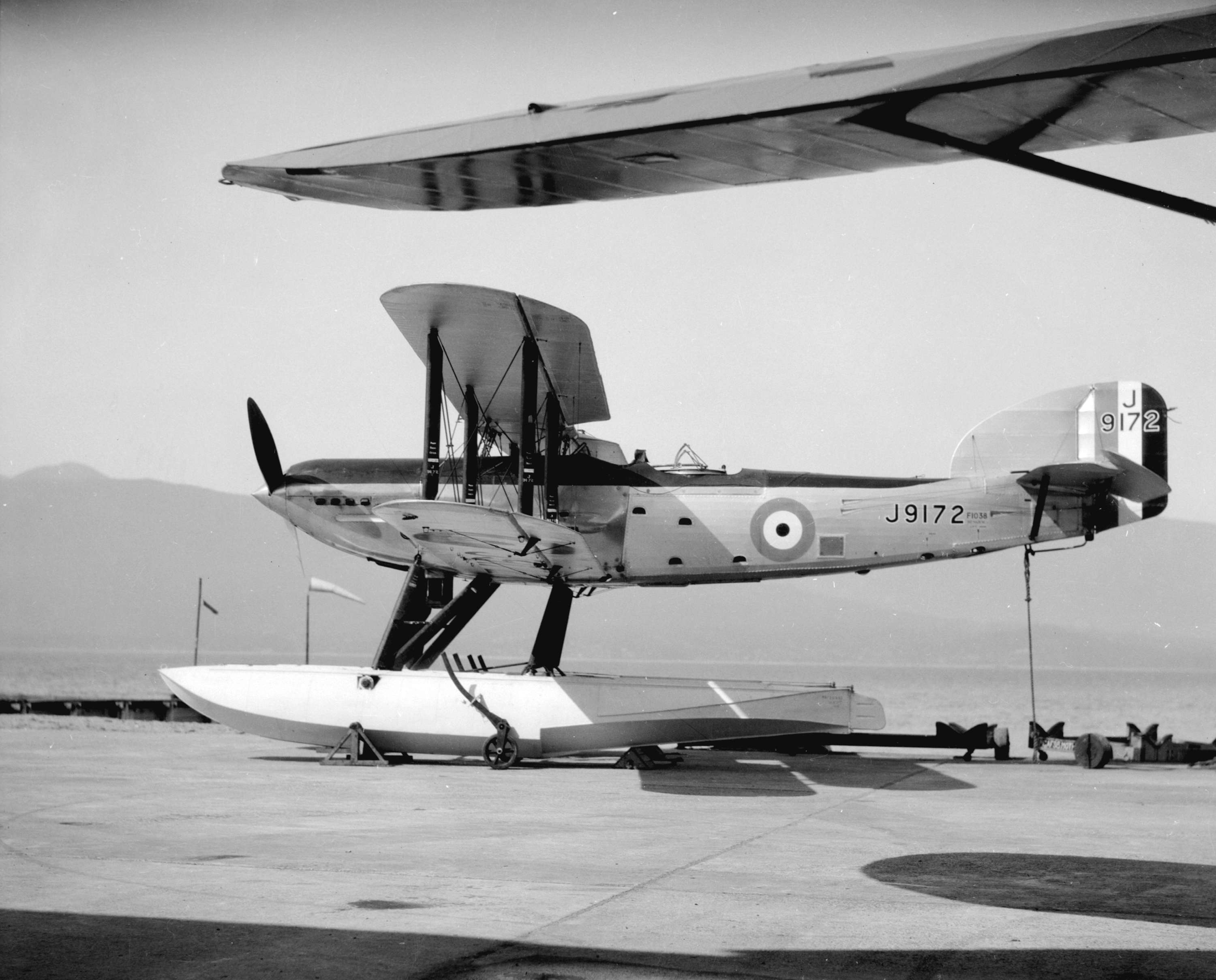 Fairey III F Mk IV G.P. seaplane RCAF #J9172 at RCAF Station Jericho Beach. The sole British-built Fairley III F to serve in Canada. It was used for trials October 1929 to September 1930.